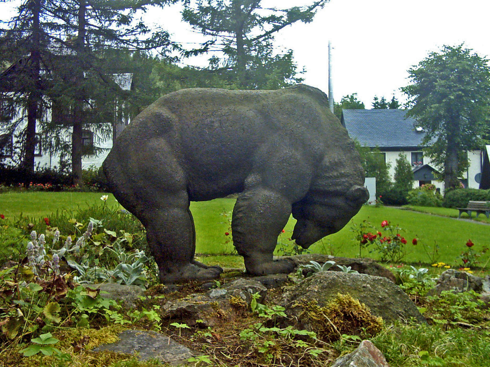 The “symbolischer Bär” (symbolic bear) in Bärenfels/Germany.